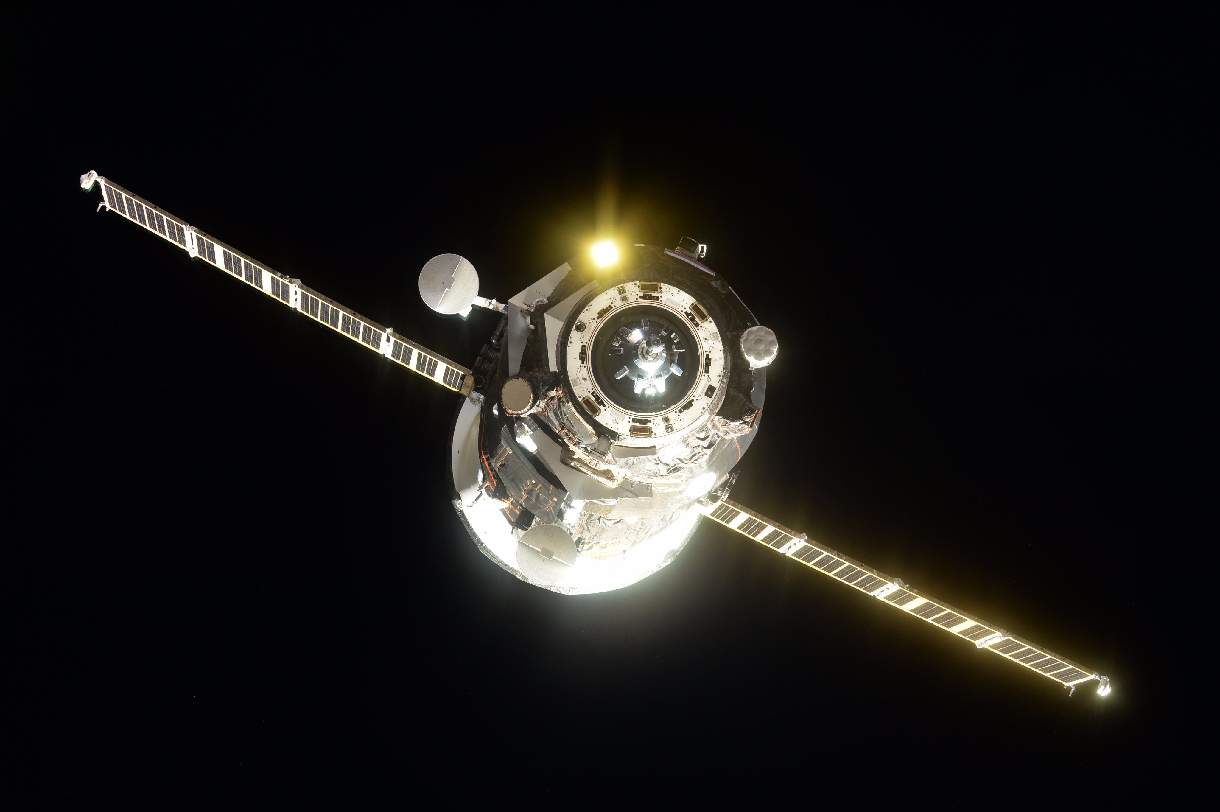 @Space_Station just got bigger. Russian Progress arrived with tons of supplies & science while @SergeyISS & Sasha monitored its every move.